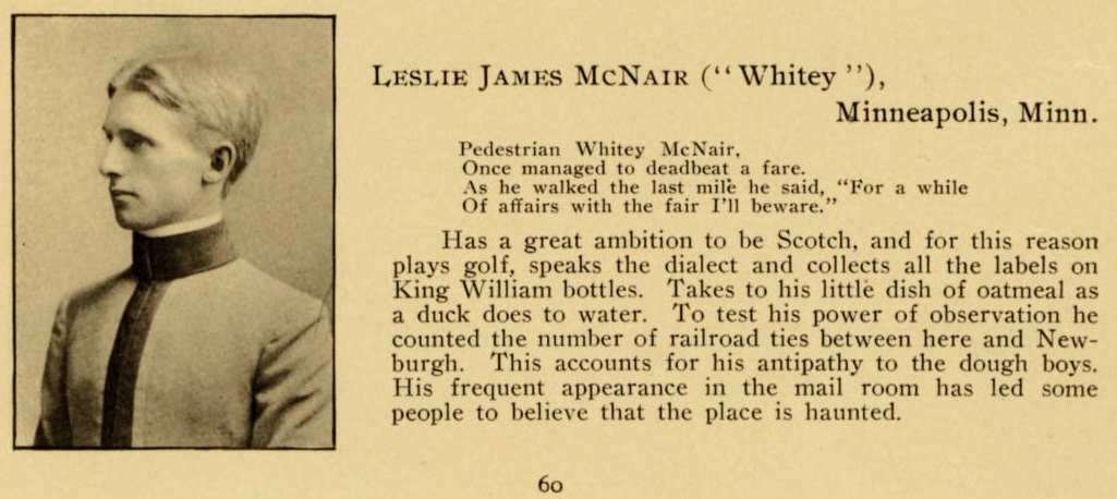 Lesley J. McNair (West Point 1904)